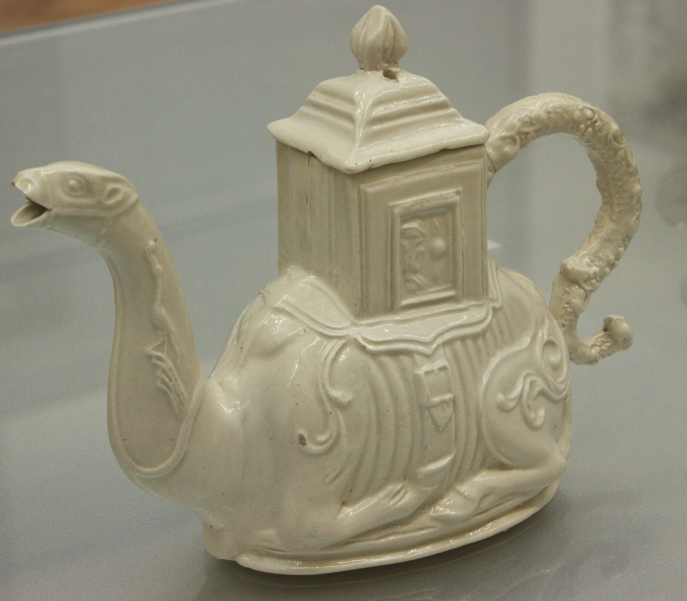 Camel teapot England, Staffordshire about 1750 The years around 1750 were extraordinarily creative and prosperous for the Staffordshire potteries. Potters responded to widening markets and changes in dining and drinking habits both at home and abroad. They developed new designs, materials and techniques. Salt-glazed stoneware, of which this teapot is made, was one of the major product lines. It was remarkably tough and could be cast into complex shapes. White salt-glazed stoneware. Given by Lady Charlotte Shreiber Collection ID: 414/989&A-1885 This photo was taken as part of Britain Loves Wikipedia in February 2010 by Valerie McGlinchey.